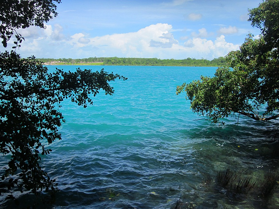 The paradise!!! Xulha Lagoon, Q. Roo